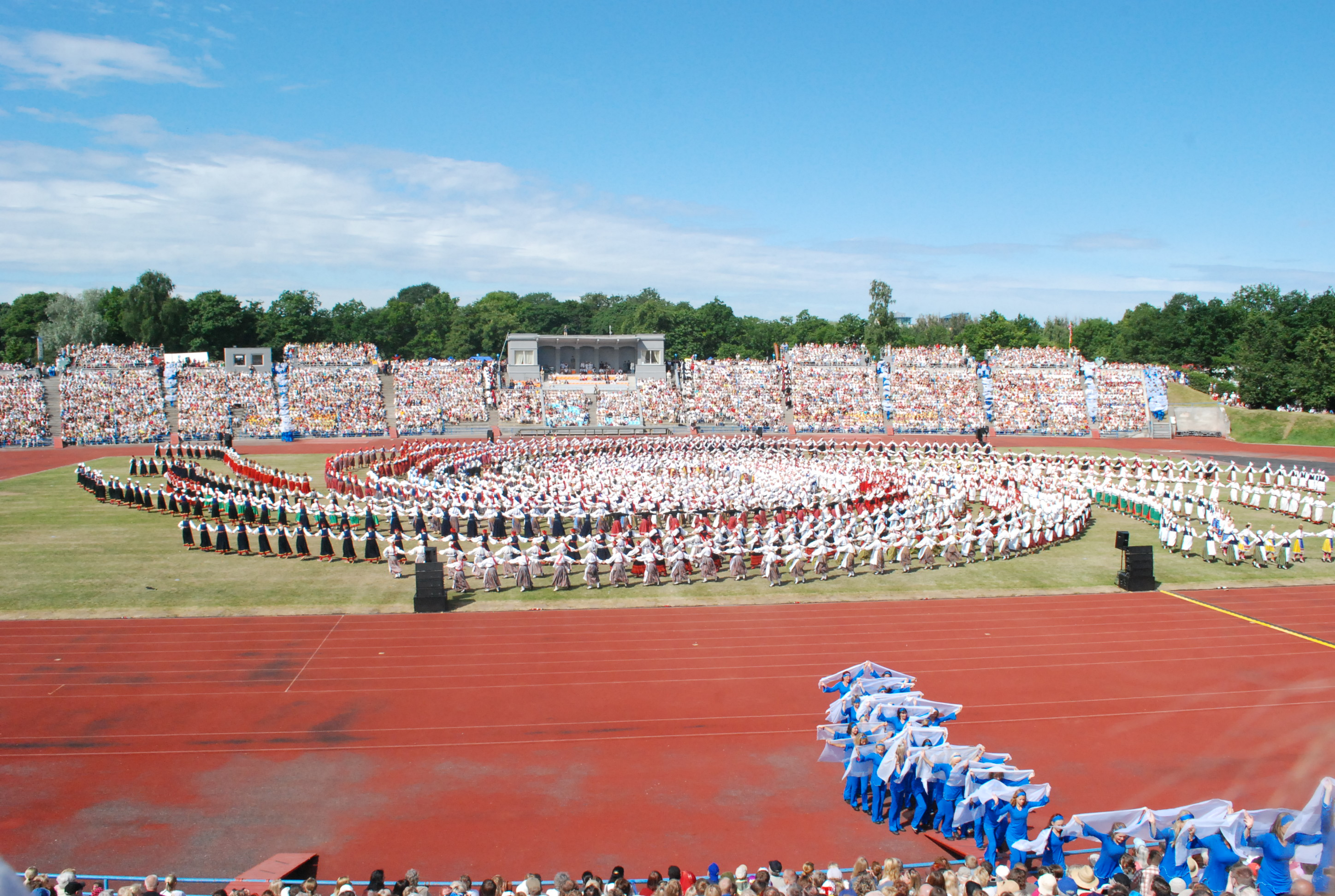 18th Estonian Dance Celebration.